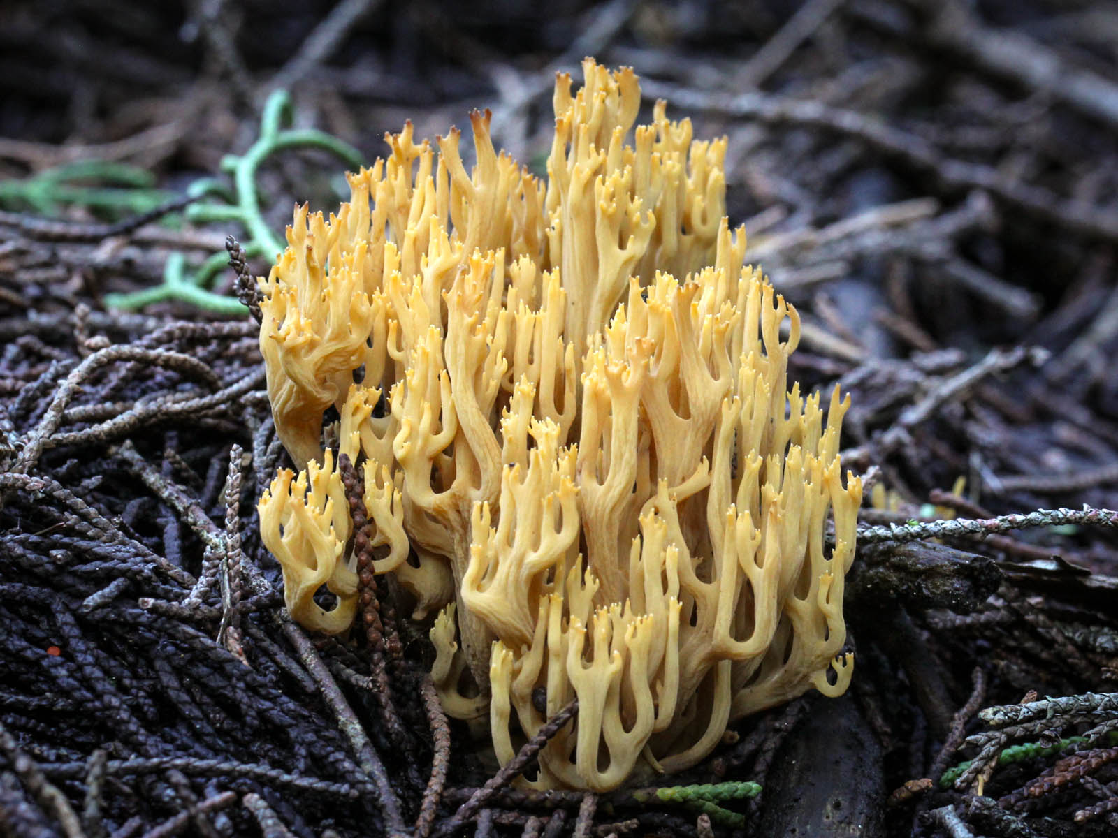 Phaeoclavulina myceliosa, formerly Ramaria myceliosa. Photo taken under cypress in the Crystal Springs Watershed in San Mateo County.